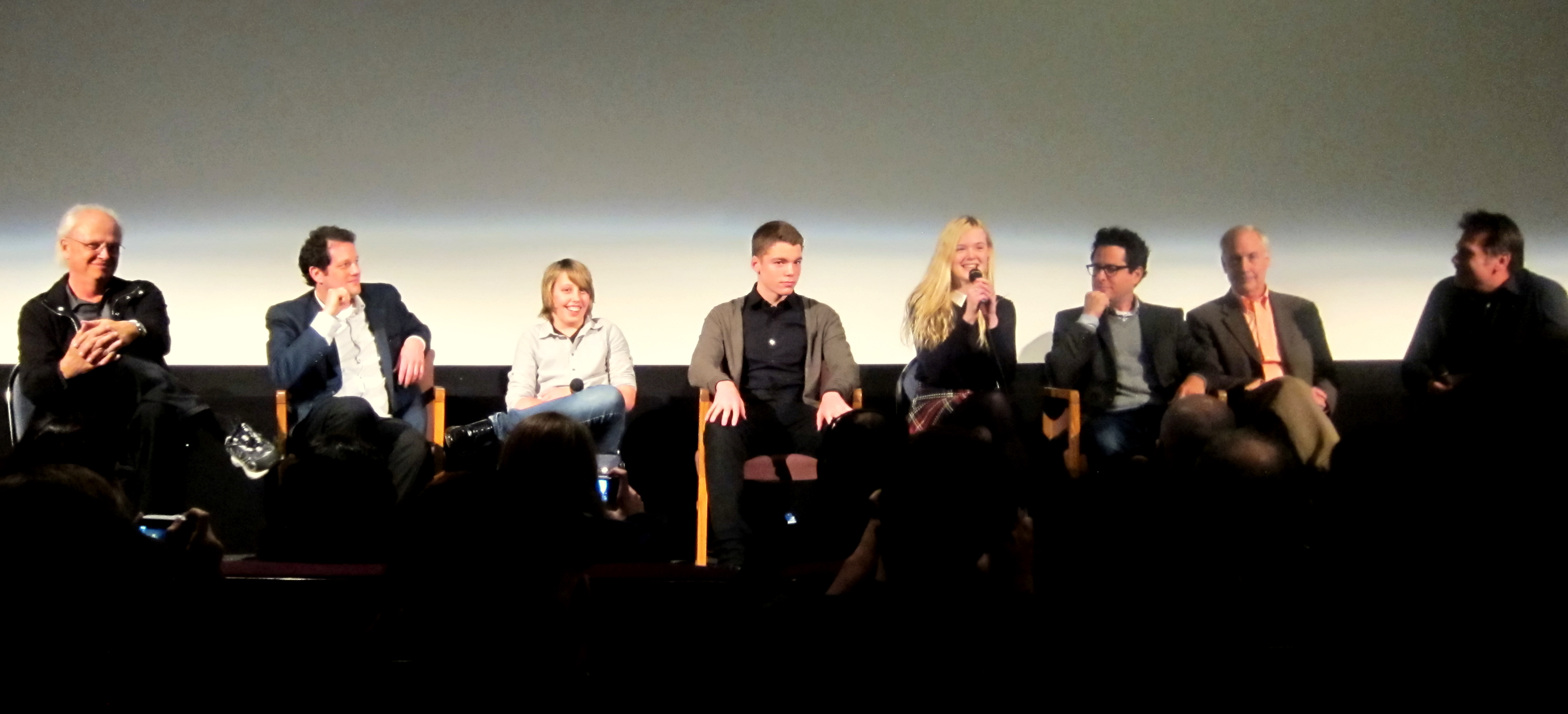 Director J.J. Abrams, actors Elle Fanning, Gabe Basso, Ryan Lee, composer Michael Giacchino, visual effects supervisor Dennis Muren and sound designer Ben Burtt, moderated by Geoff Boucher. (above is just a copy/paste. Left to Right its Muren, Giacchino, Lee, Basso, Fanning, Abrams, Burtt, Boucher.)